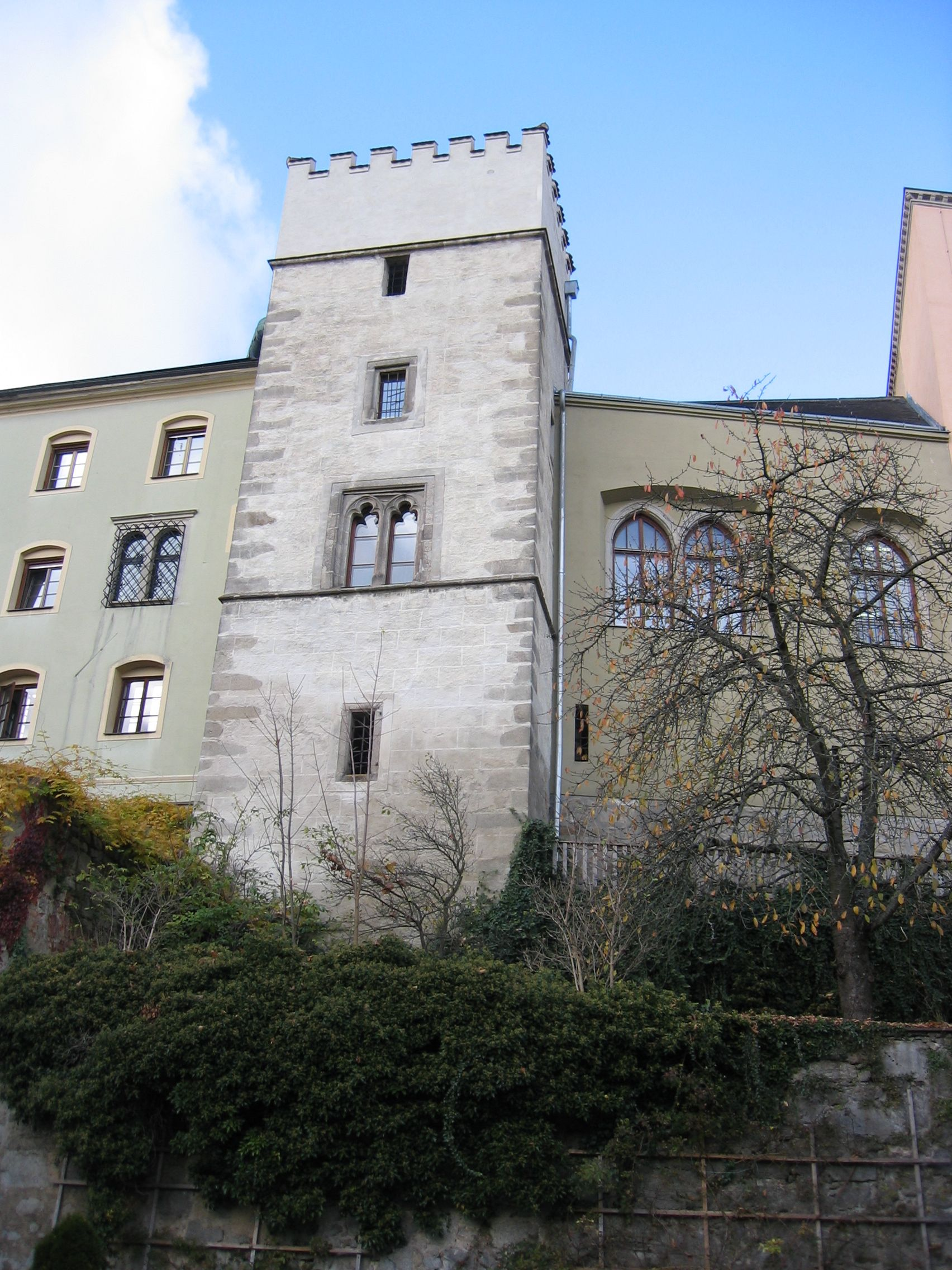 Gunpowder Tower Freistadt